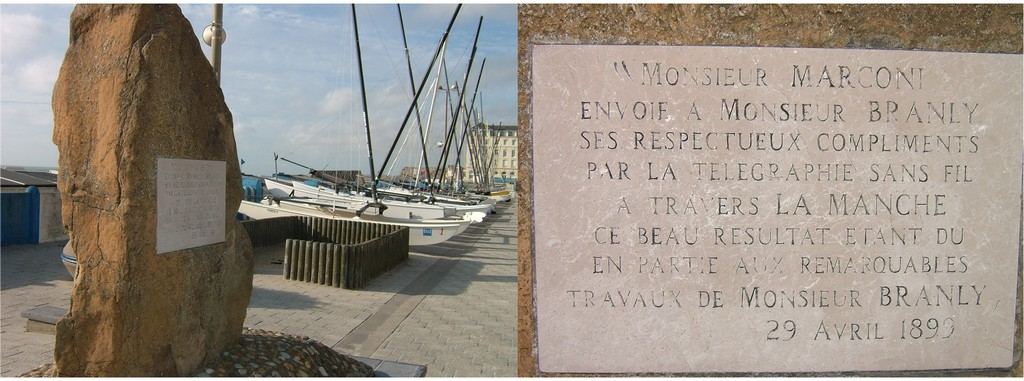 plaque placed at Wimereux (near Boulogne sur mer), commemorating the first link of TSF between France and England